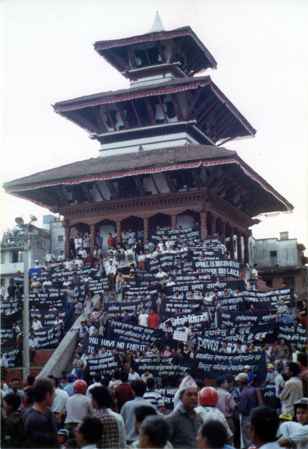 Demonstrators demanding linguistic rights unfurl banners with slogans on the steps of a temple in Kathmandu Durbar Square.